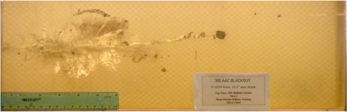 300 AAC BLACKOUT(7.62×35mm) gel test, 110-VMAX